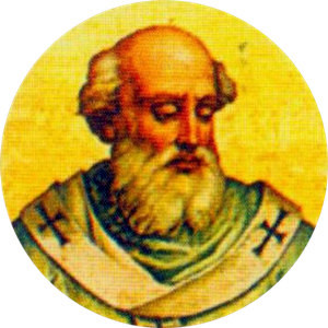 Portait of Pope John V in the Basilica of Saint Paul Outside the Walls, Rome